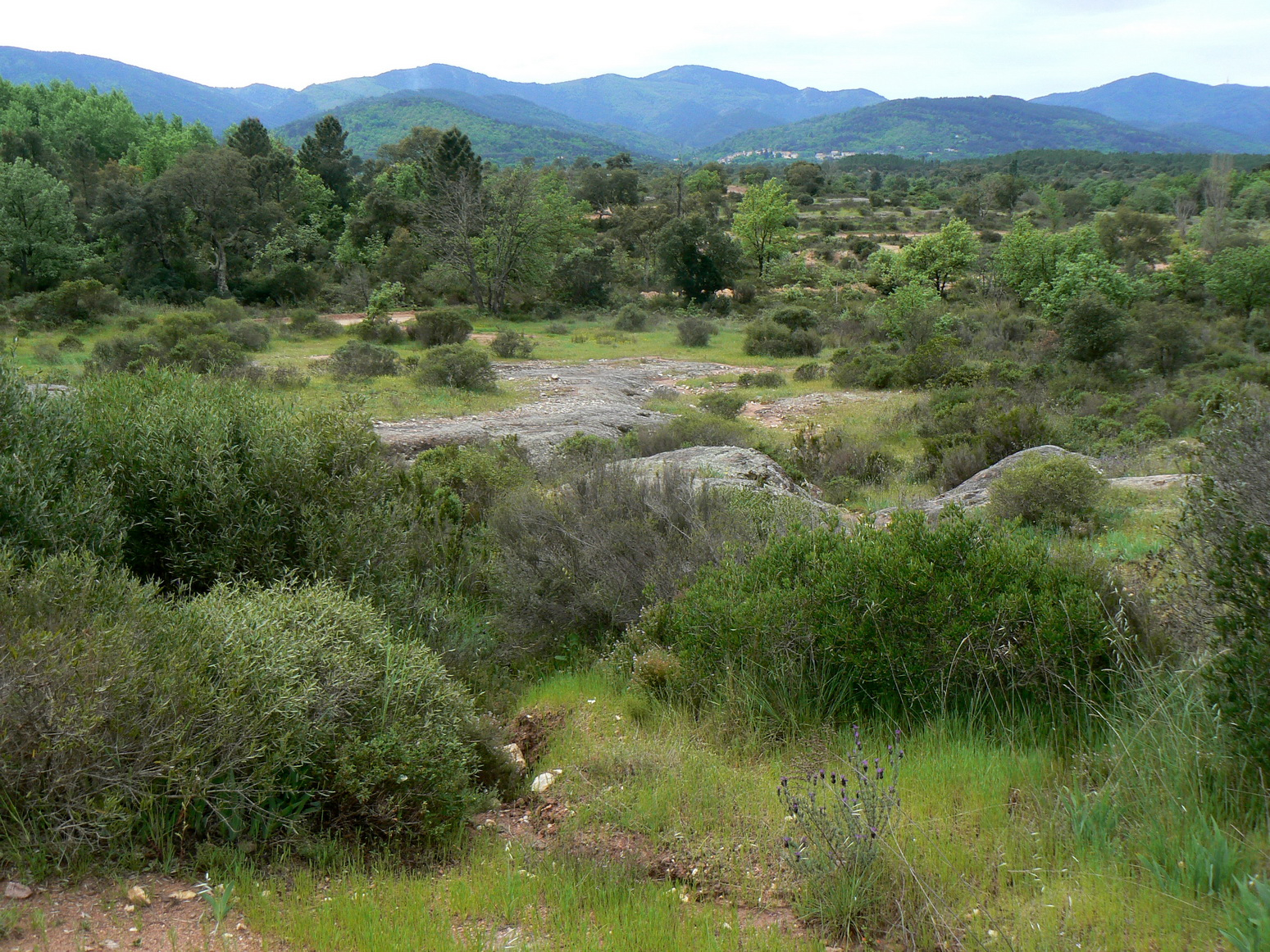 Garrigue in the Plaine des Maures, Var, France